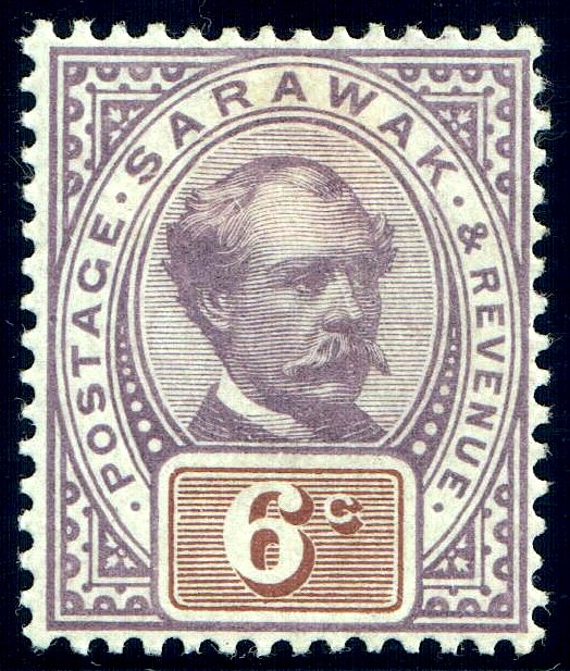 Sarawak 1888-97 typographed, perf. 14, 6c lilac and brown, mint. Catalogue: Sc. 13